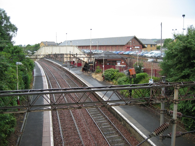 Neilson Railway Station